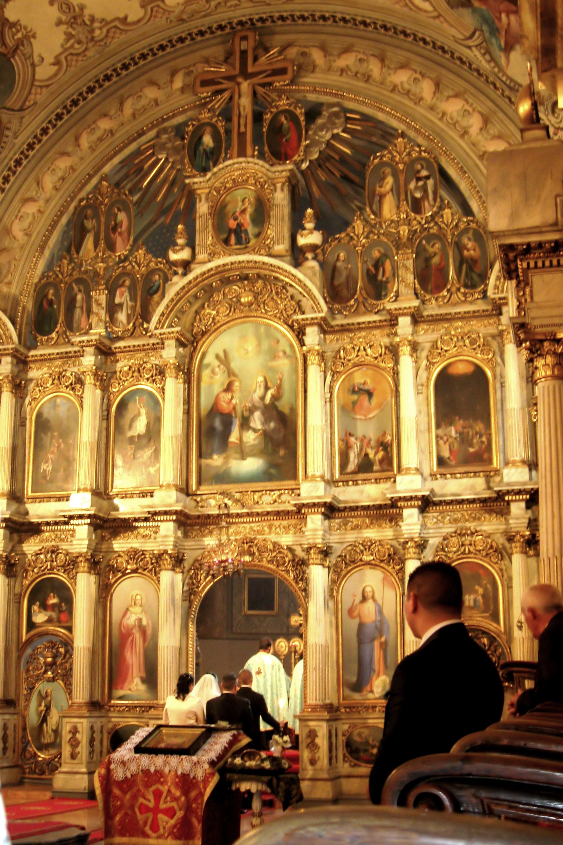 The Serbian Orthodox Cathedral, Timişoara, Romania.